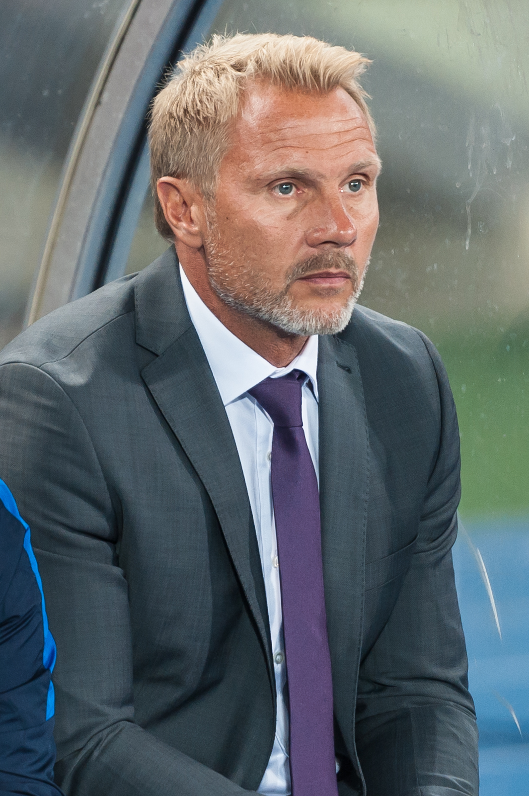 UEFA Europa League - FK Austria Wien vs FK Kukesi, 2016-07-14.